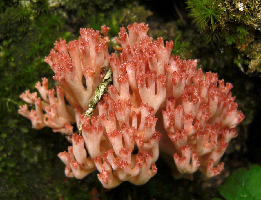 Ramaria botrytis 20100917.225 Henry Jackson Wilderness, WA